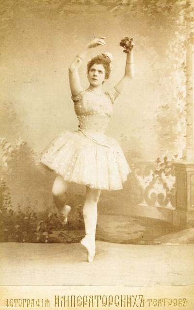 Photograph of Pierina Legnani (1863-1923), Prima ballerina assoluta of the St. Petersburg Imperial Theatres. She is costumed for the first act of the original production of the choreographer Marius Petipa (1818-1910) & the composer Alexander Glazunov's (1865-1936) 1898 ballet "Raymonda".